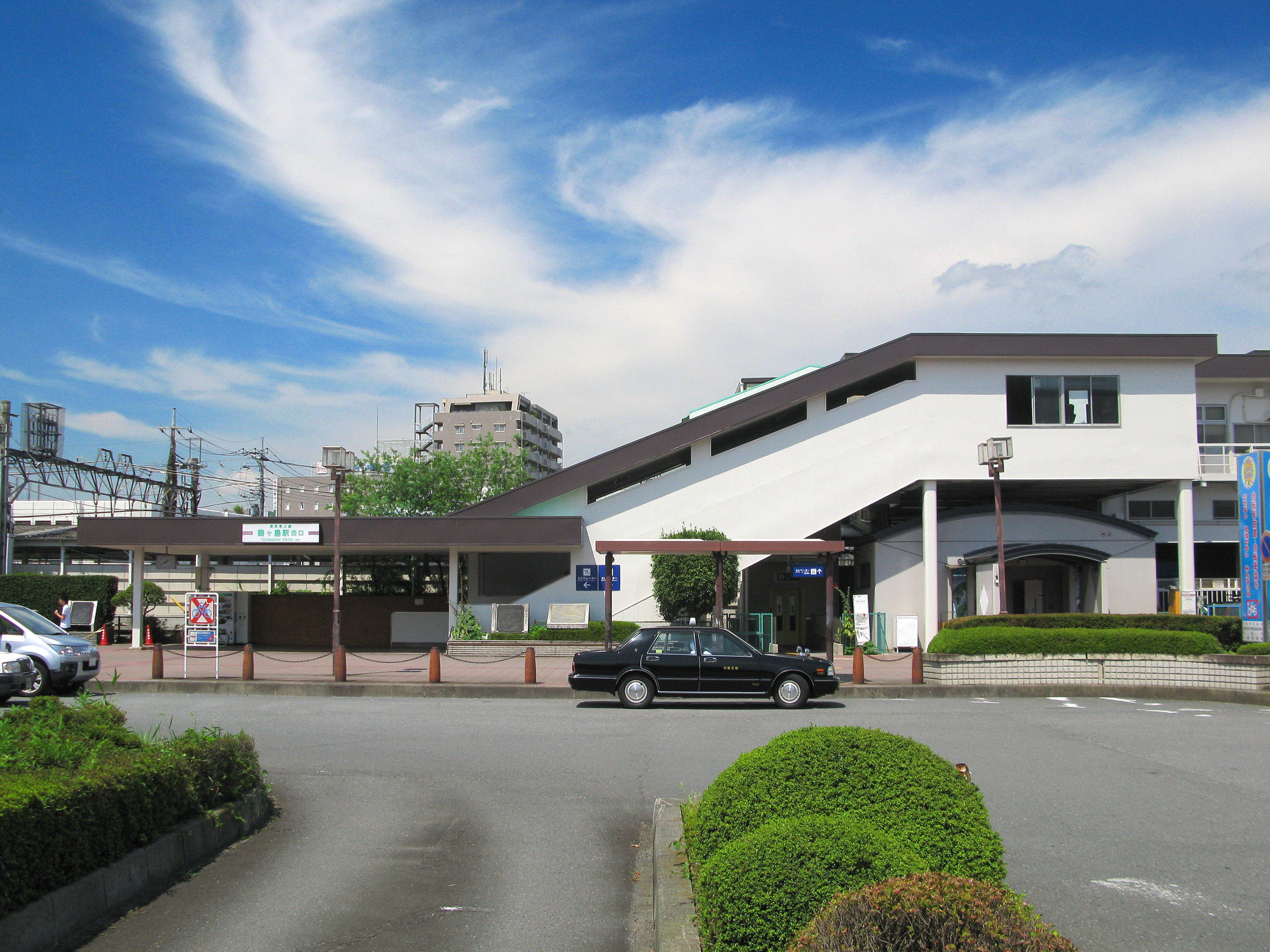 West entrance of Tsurugashima Station on the Tobu Tojo Line in Saitama Prefecture, Japan